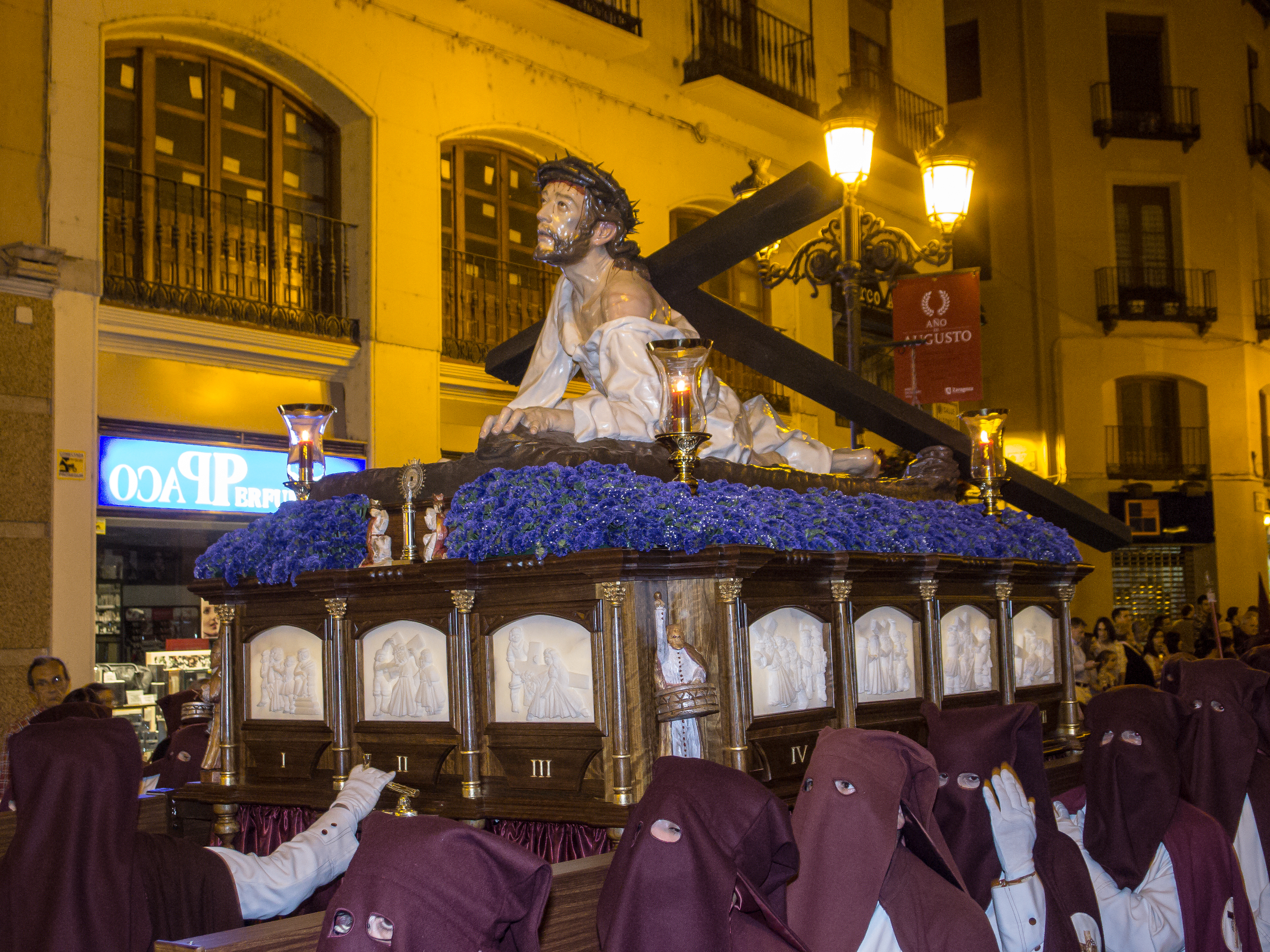 OLYMPUS DIGITAL CAMERA This is a photography of a Folklore festival in Spain (Wikidata id Q9075892).